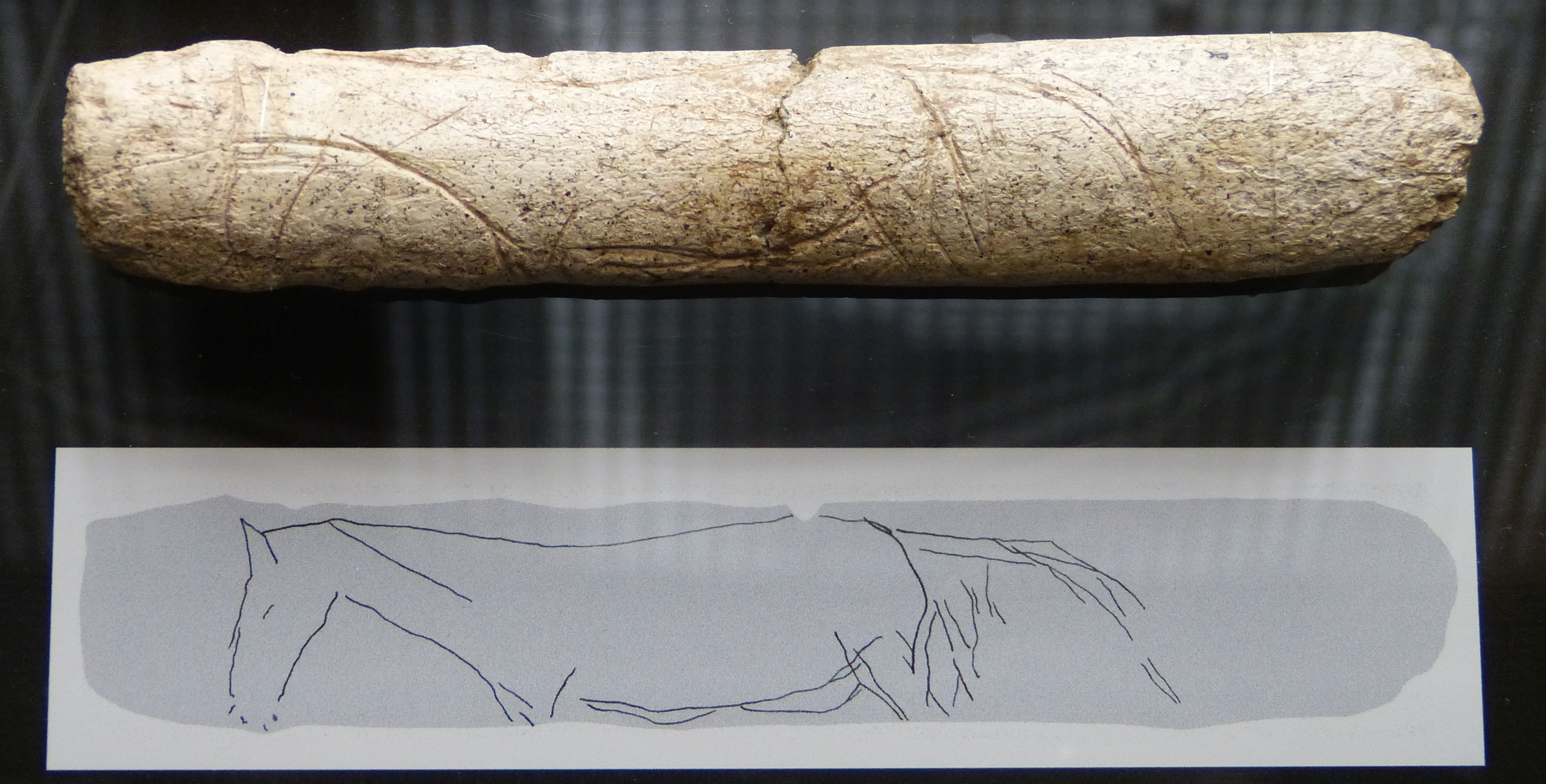 Weimar ( Thuringia ). Museum for Prehistory in Thuringia: Horse carved on a chisel made of bone ( Magdalenian period ) from Kniegrotte cave in Döbritz.